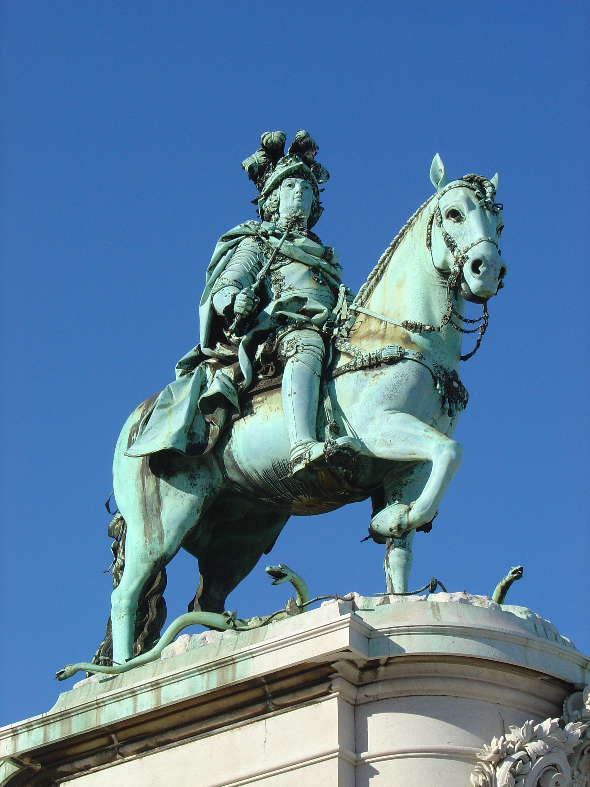 Statue of King José I. Praça do Comercio, Lisbon, Portugal. Done in 1775 by Joaquim Machado de Castro